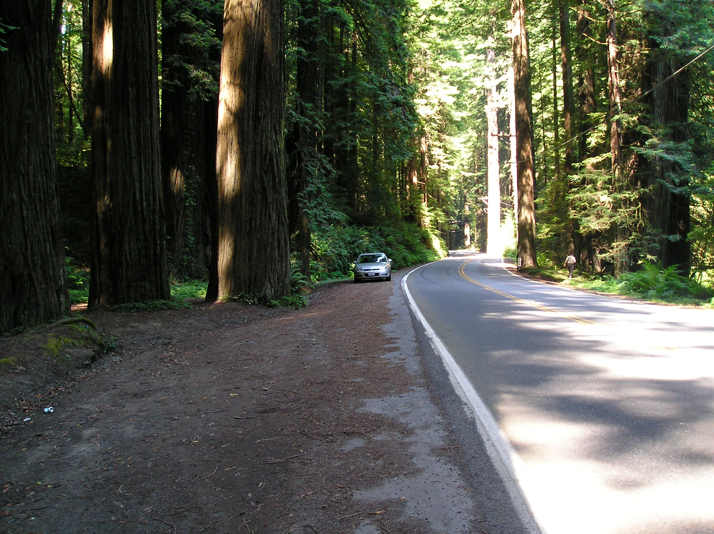 Coast Redwoods along Avenue of the Giants, Humboldt Redwood State Park, Califormia